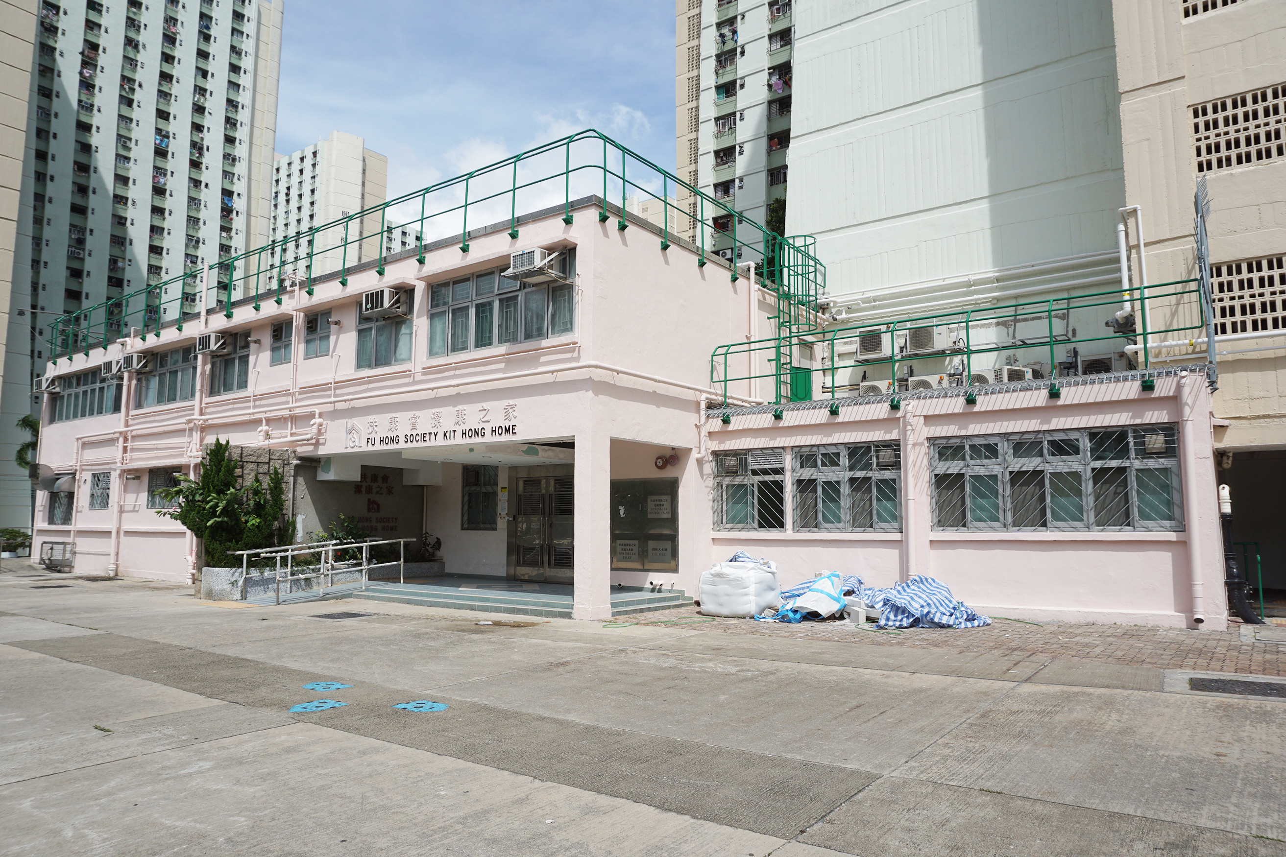 Fu Hong Society Kit Hong Home in Tuen Mun, Hong Kong.